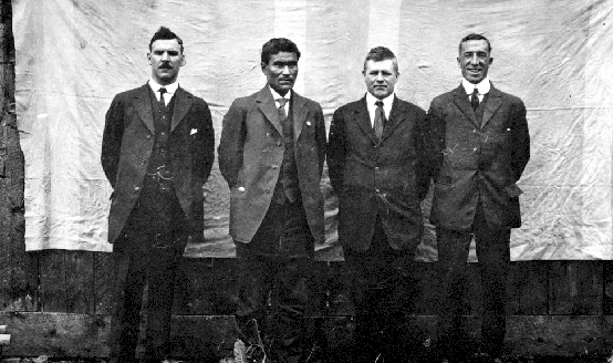 L to R: Chief Constable John Kelly, Simon Gunanoot,Constable Cline, Inspector Parsons.. Photographer Unknown Photo taken 1919 Source BC Archives # B-04313 [1]